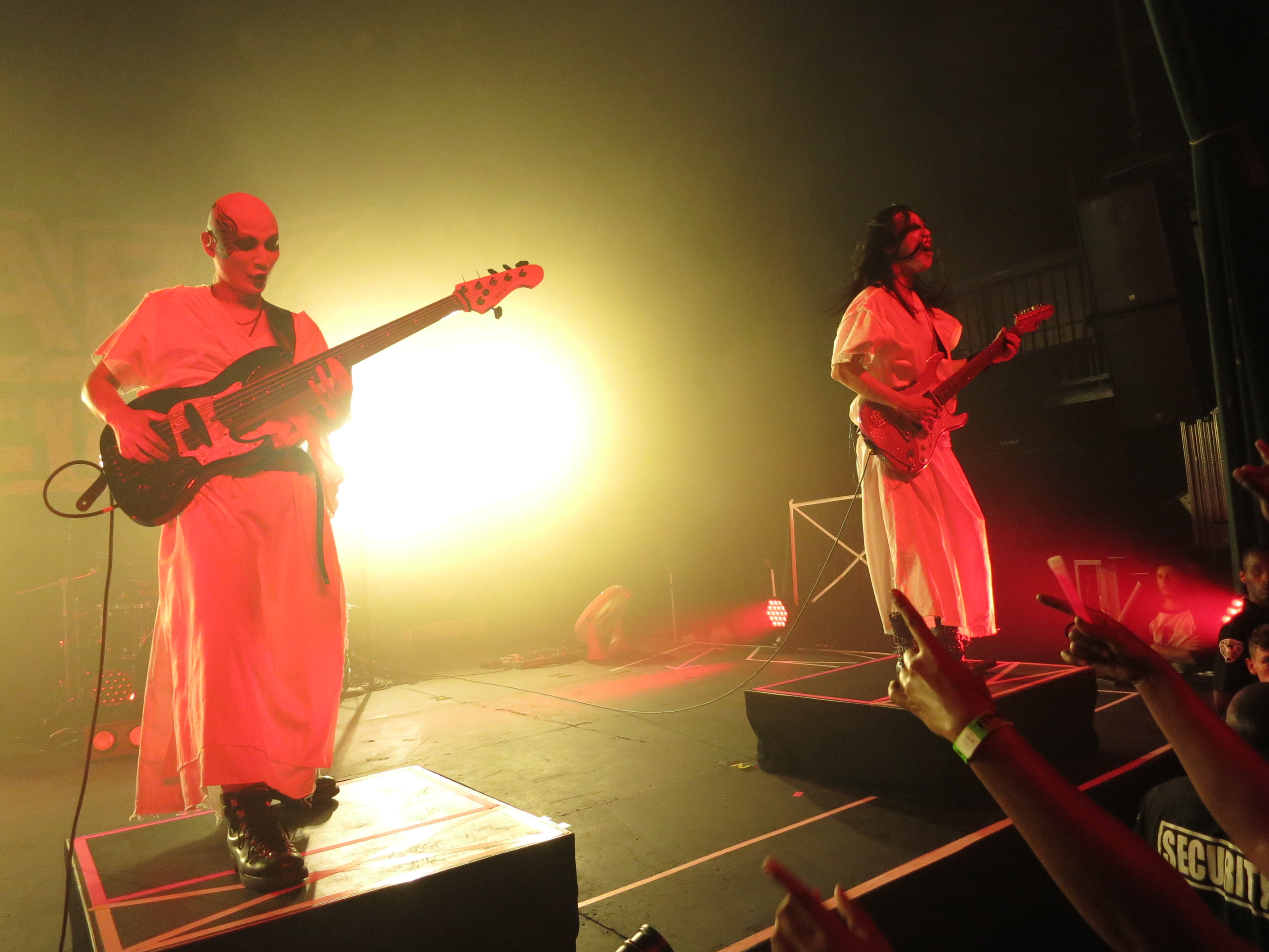 Babymetal performs live at The Fonda Theatre in Los Angeles, CA, USA. Pictured are members of Babymetal's live band.